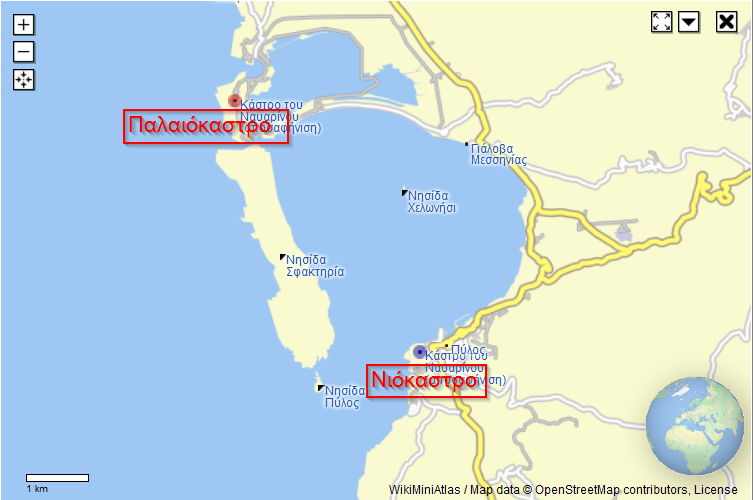 Palaiokastro and Niokastro disambiguation in Navarino, Pylos, Greece